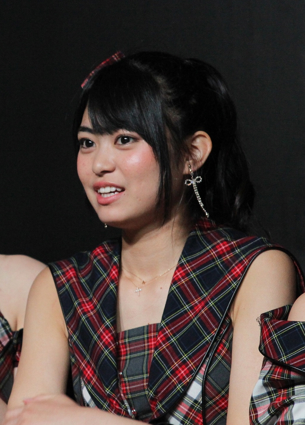 130413 AKB48 at Tokyo Auto Salon Singapore Meet & Greet 2 and Performance (前田亜美)